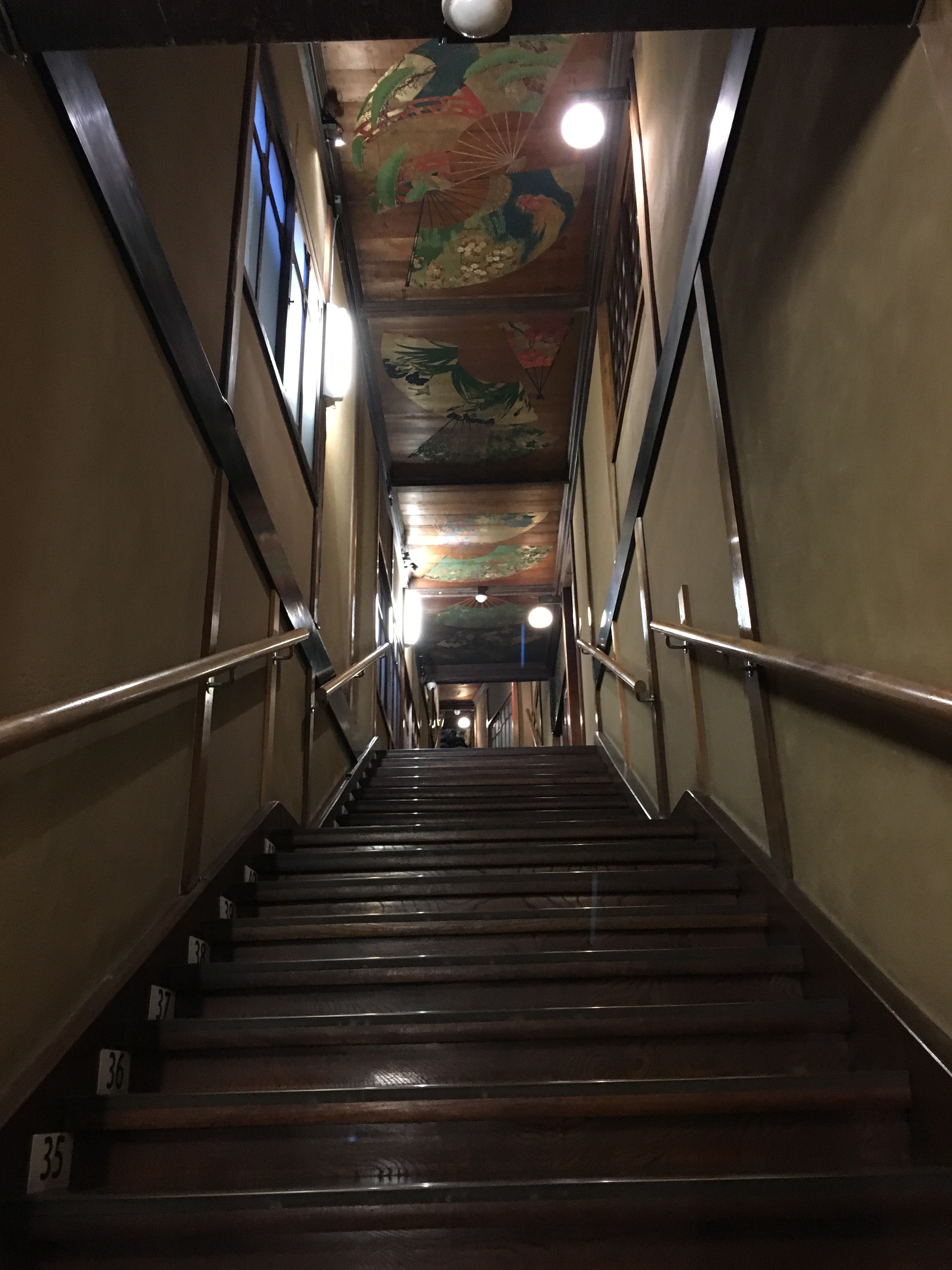 Hyakudan Kaidan